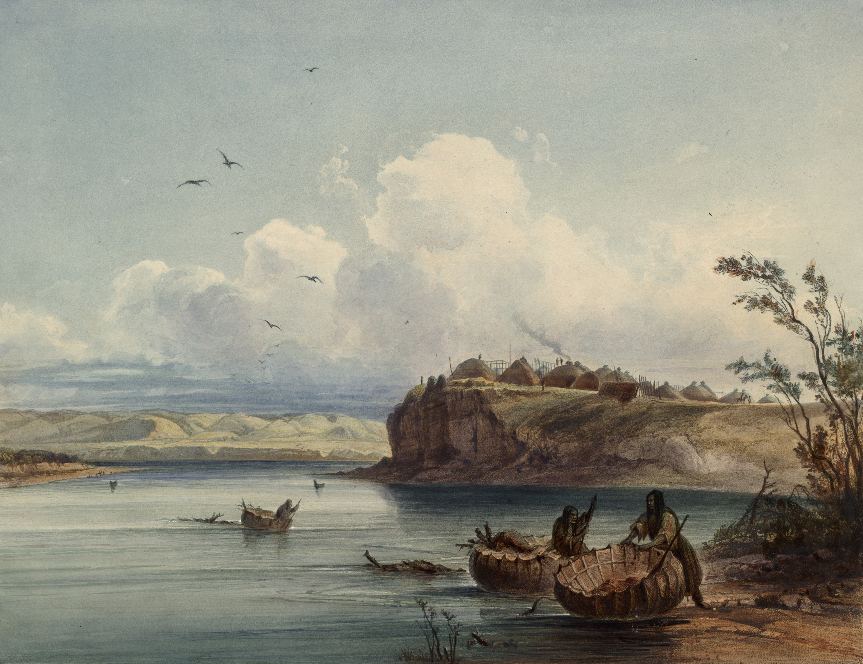 See source image, just cropped out the huge vanilla area